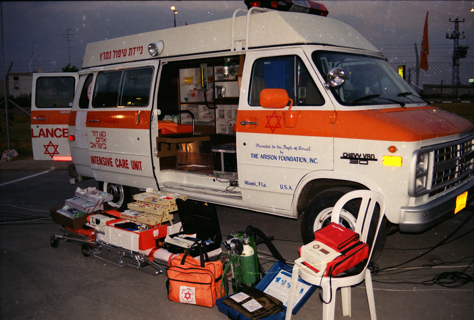 Health in Israel